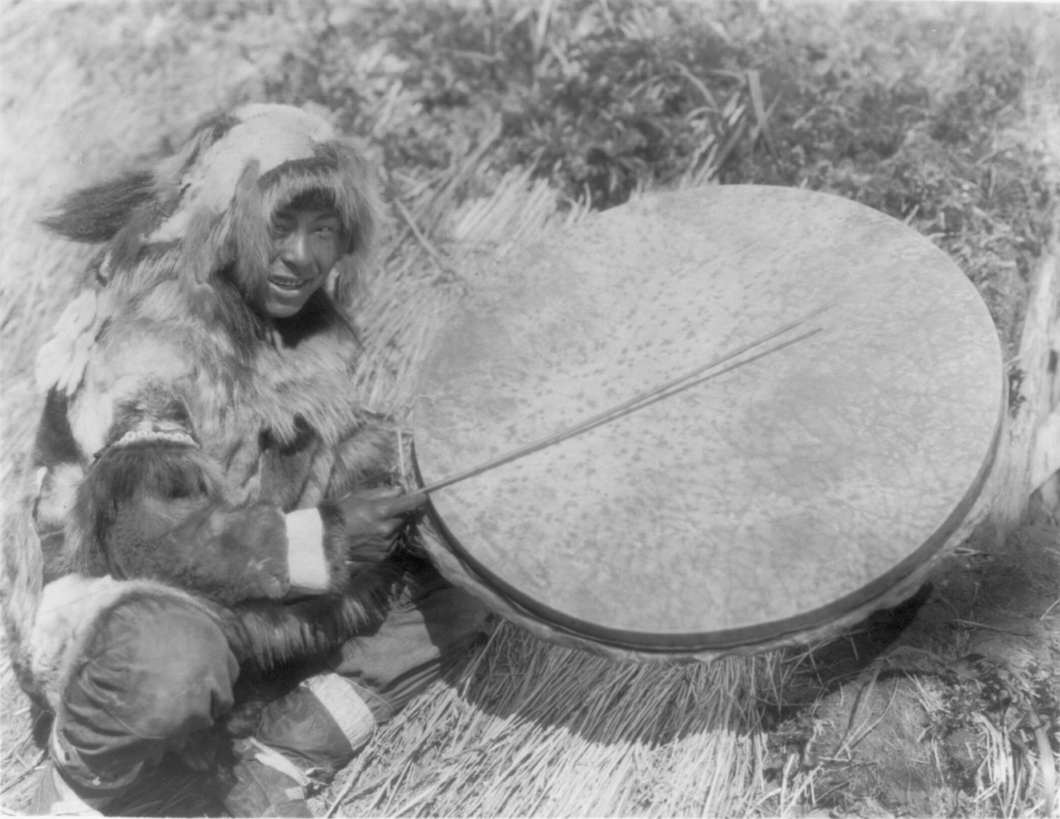 The drummer--Nunivak. Nunivak native playing a very large drum.